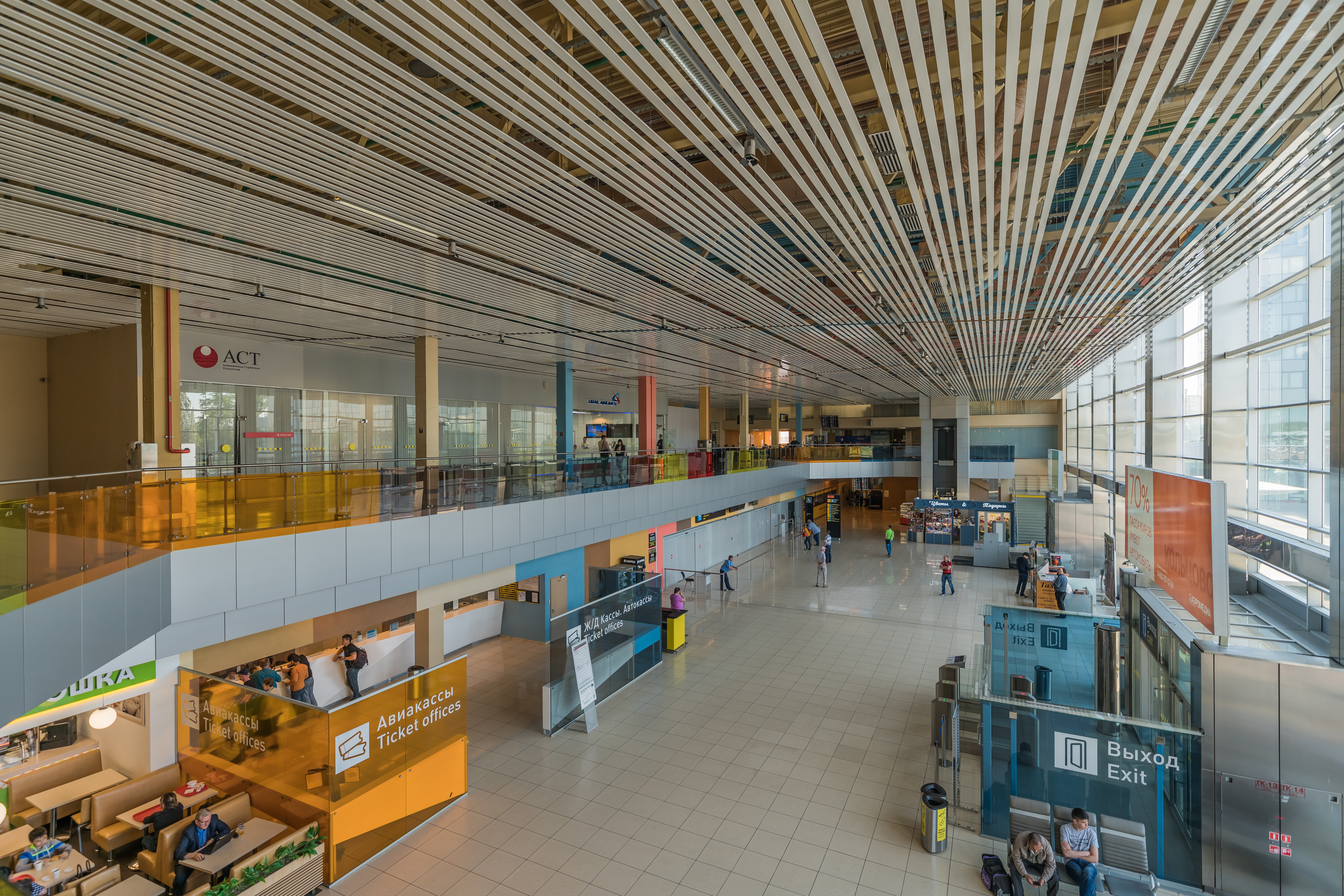 Interior of Koltsovo Int. Airport passenger terminal in Ekaterinburg, Russia